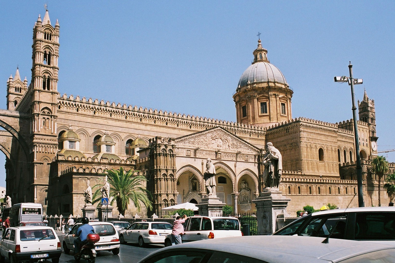 Cathedral of Palermo General view Elle fut créée en 1450